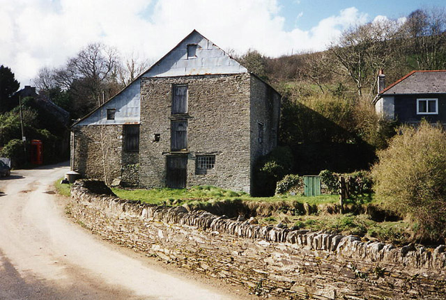 St Veep: Penpoll Mill